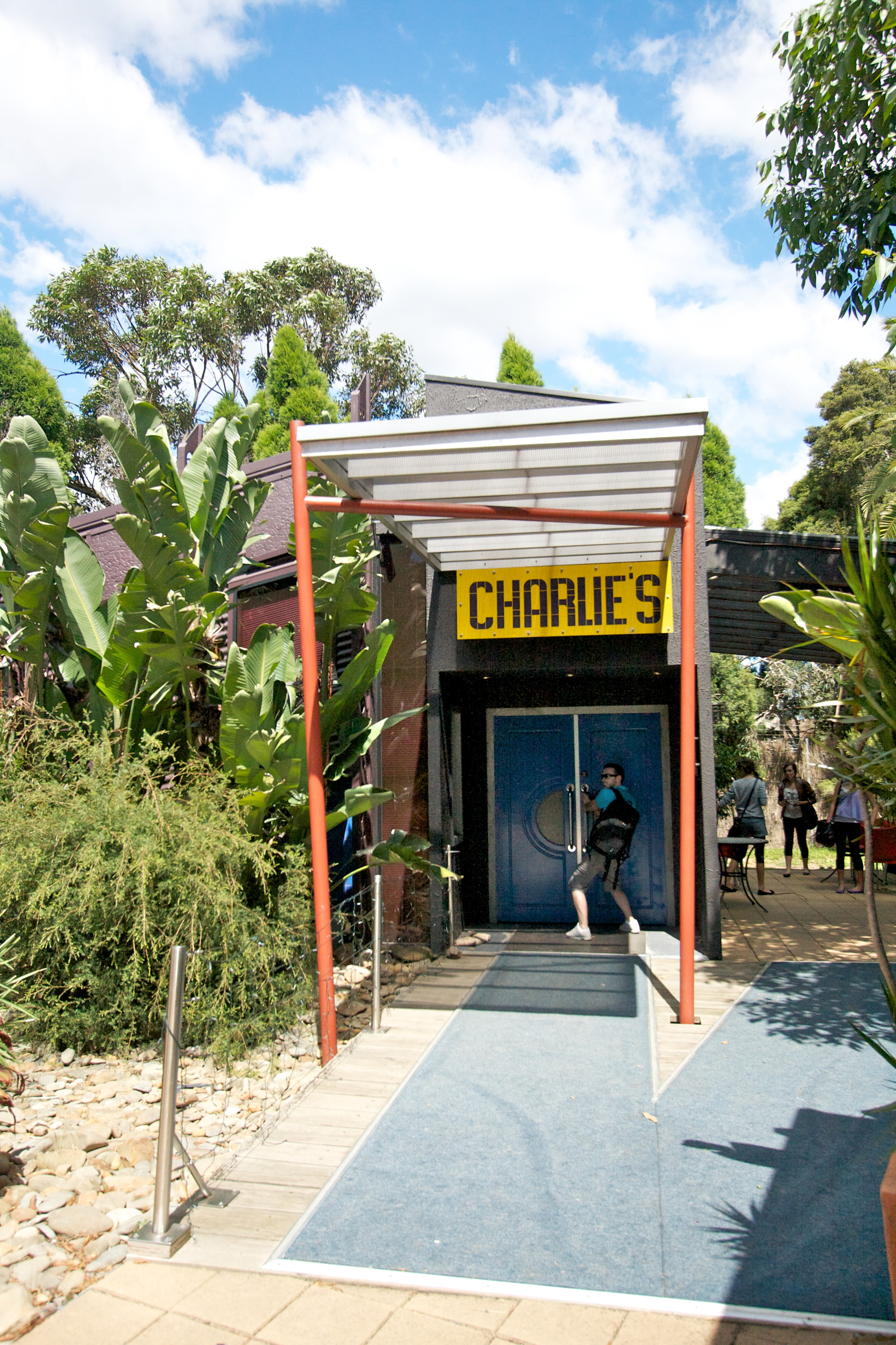 The Charlie's Bar set from the Australian soap opera Neighbours.